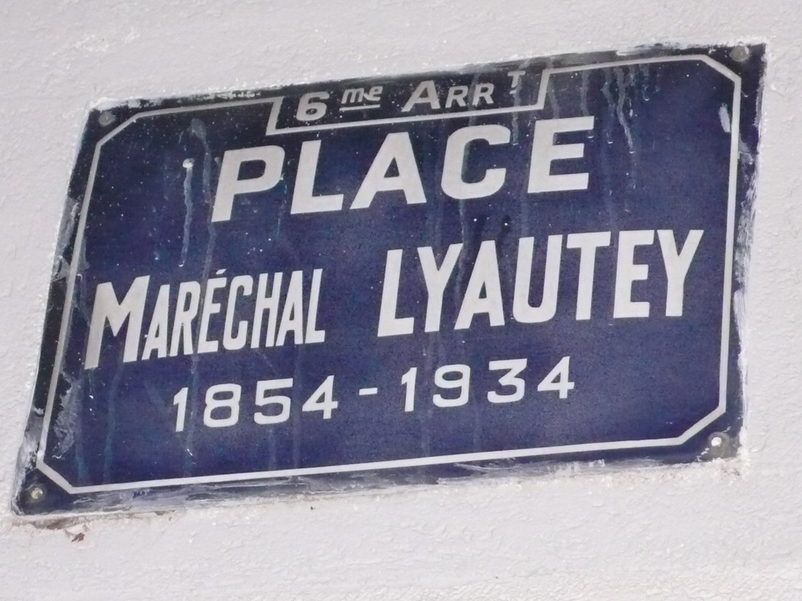 street sign - Maréchal-Lyautey square - F-69006 Lyon